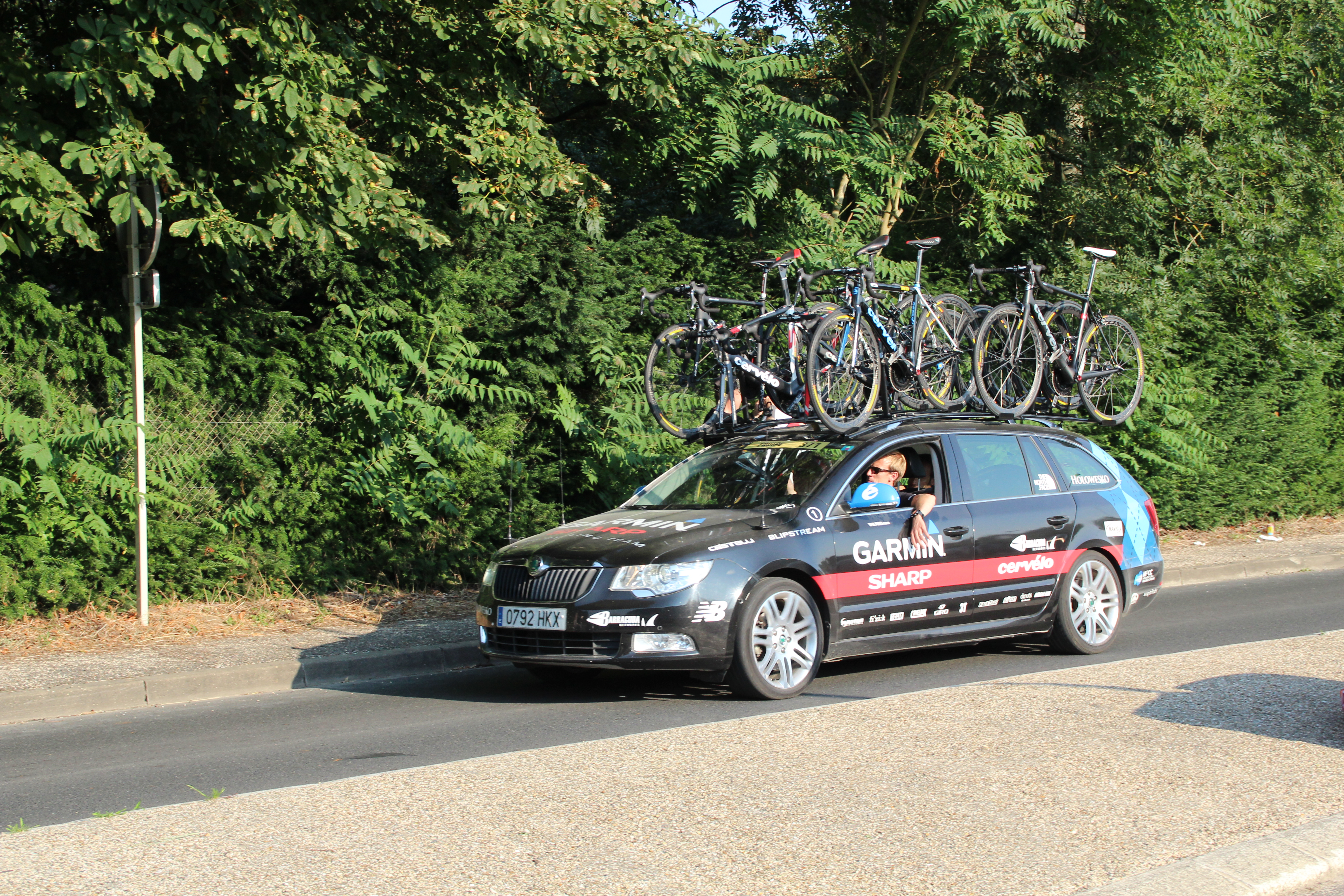 Tour de France 2013 sport event in Saint Rémy lès Chevreuse, France